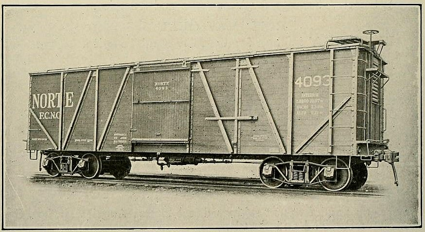 Wooden external-braced box car, used for sugar service in Cuba; built by American Car and Foundry. Cropped from the magazine shown, sharpened using GIMP.